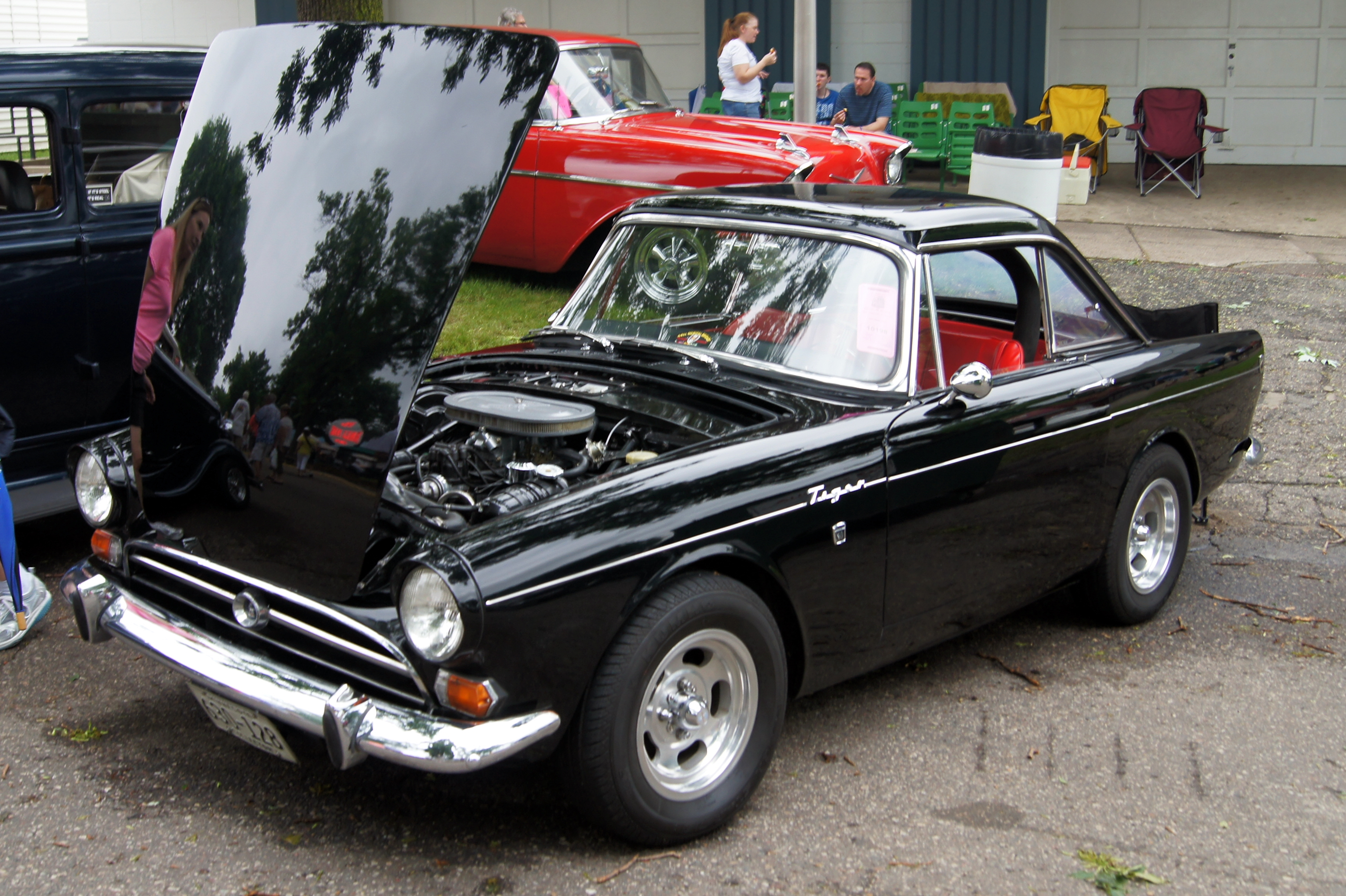 MSRA “BACK TO THE 50′s” 40th ANNIVERSARY June 21-23, 2013 State Fairgrounds St. Paul Minnesota More Car Pictures